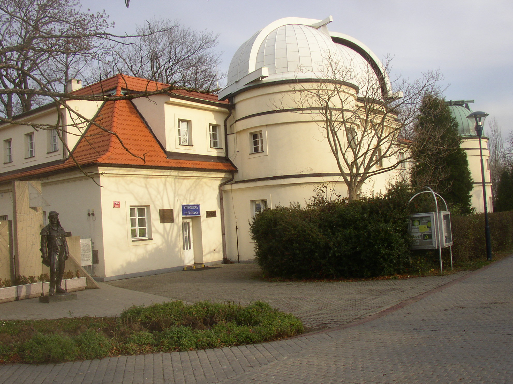 Štefánik´s Observatory in Prague, Czech Republic. For detail of Štefánik´s statue (left) see also img. 01.